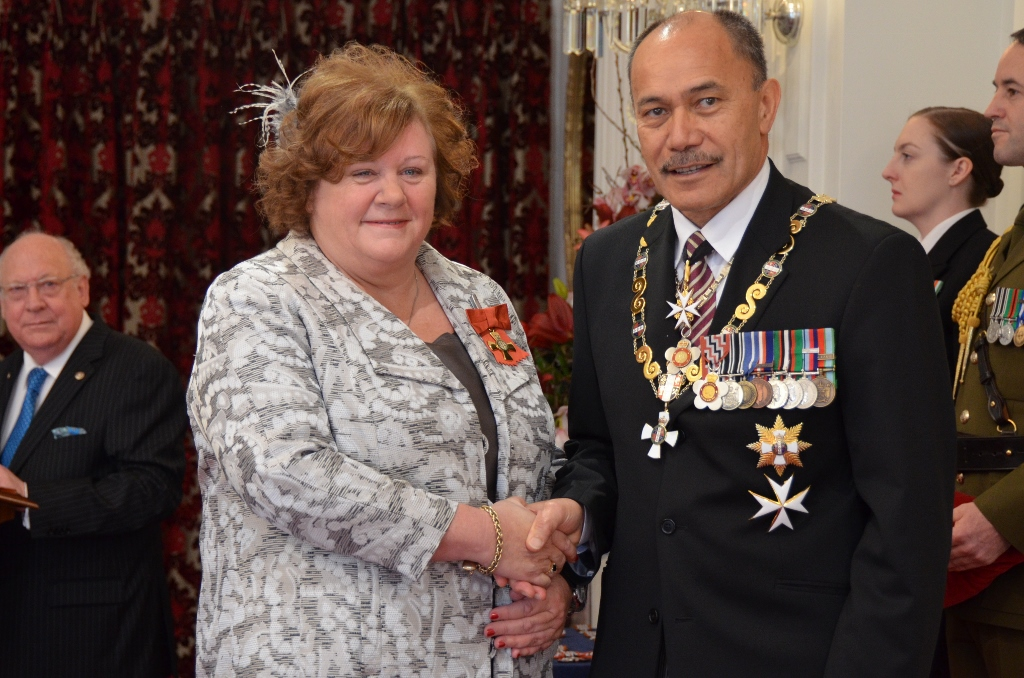 Norah Barlow, after her investiture as ONZM, for services to business, by the governor-general, Sir Jerry Mateparae, on 12 September 2014